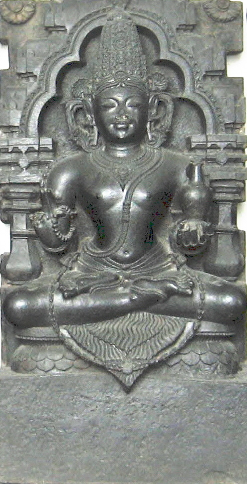 Budha, Hindu god of Mercury, British Museum, 13th century, Konark